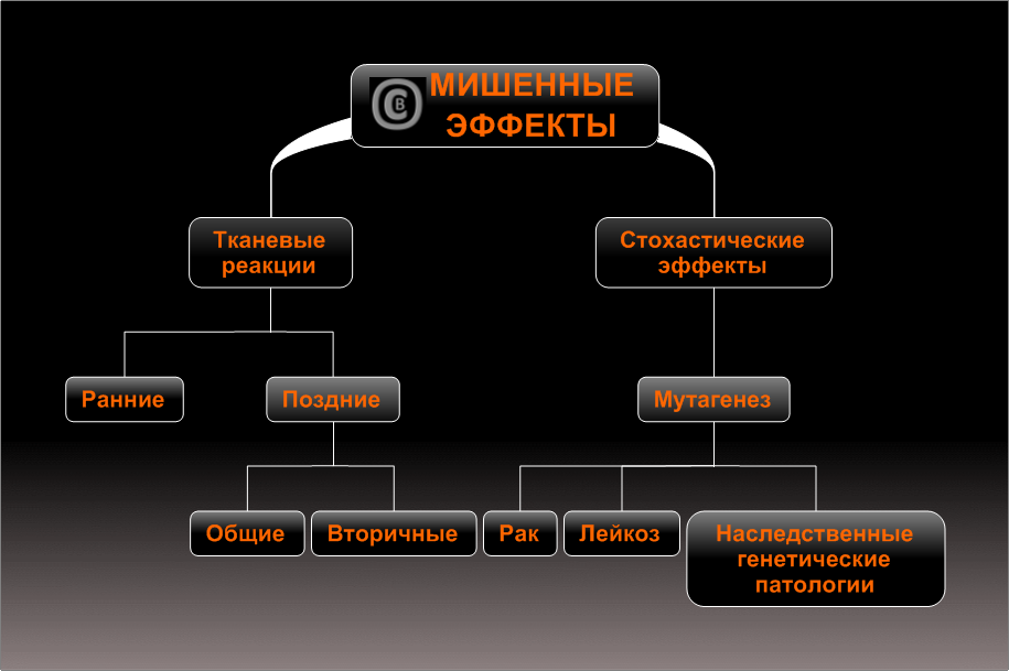 classification of target effects after direct and (or) indirect action of radiation on targets